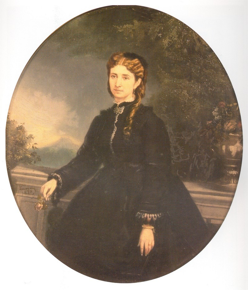 Old portrait of Elise Hensler, Countess of Edla, second wife of D. Fernando II, King of Portugal.